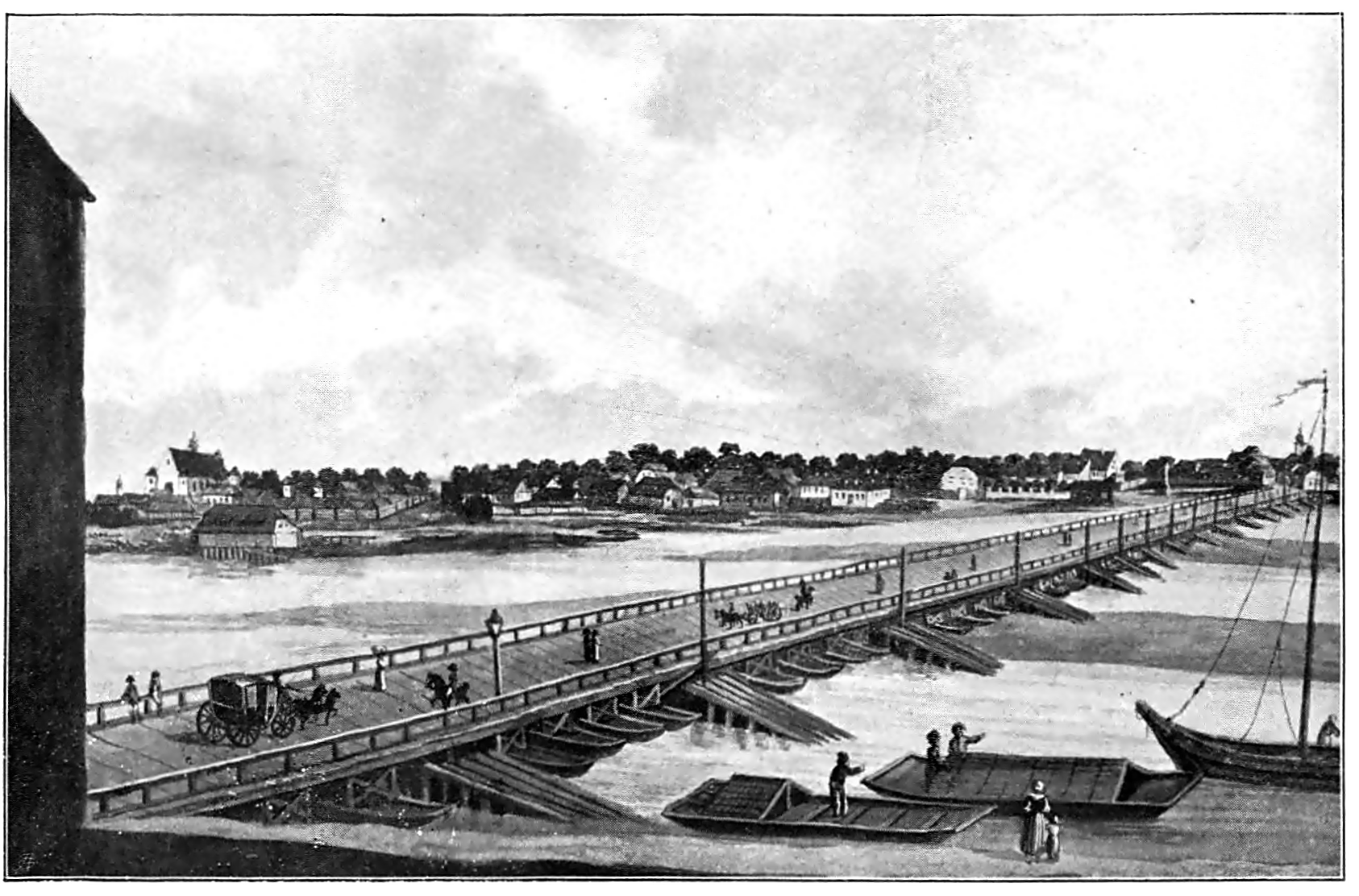 Adam Poniński's Bridge in Warsaw